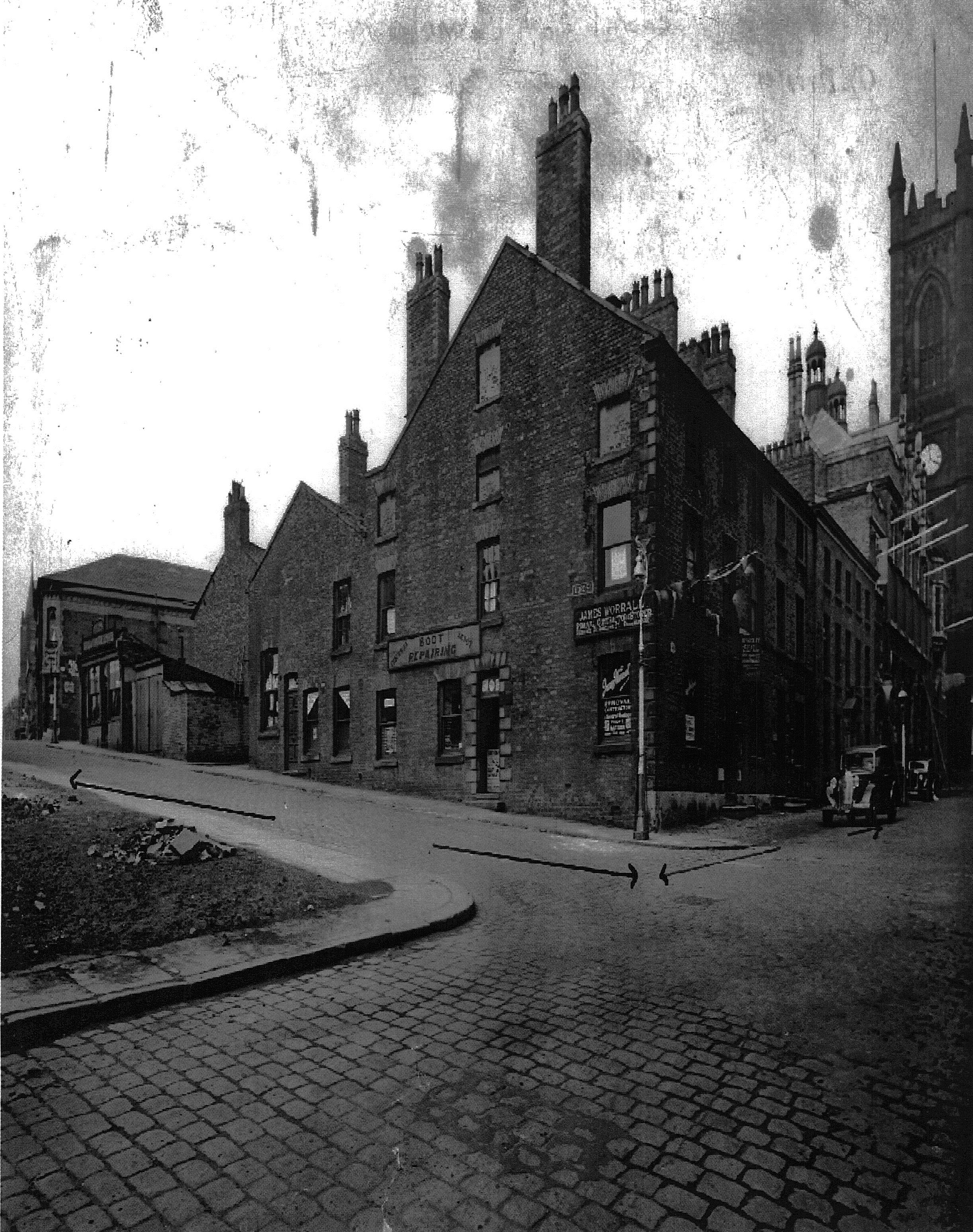 A photo taken of Church Lane in about 1940